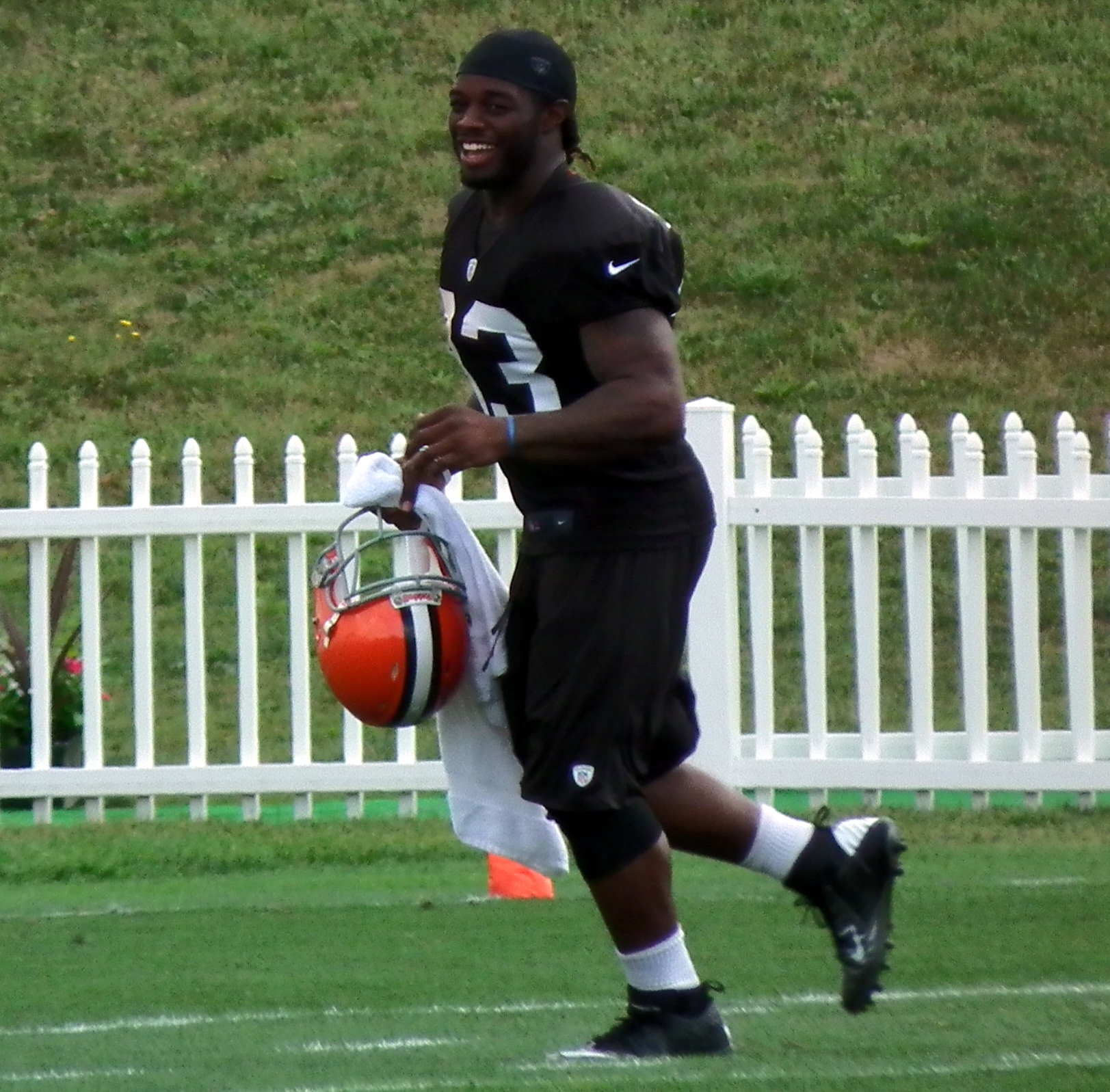 Trent Richardson Leaving the Field